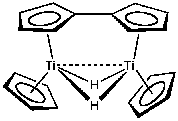 improved drawing indicating probable weakness of Ti--Ti bond